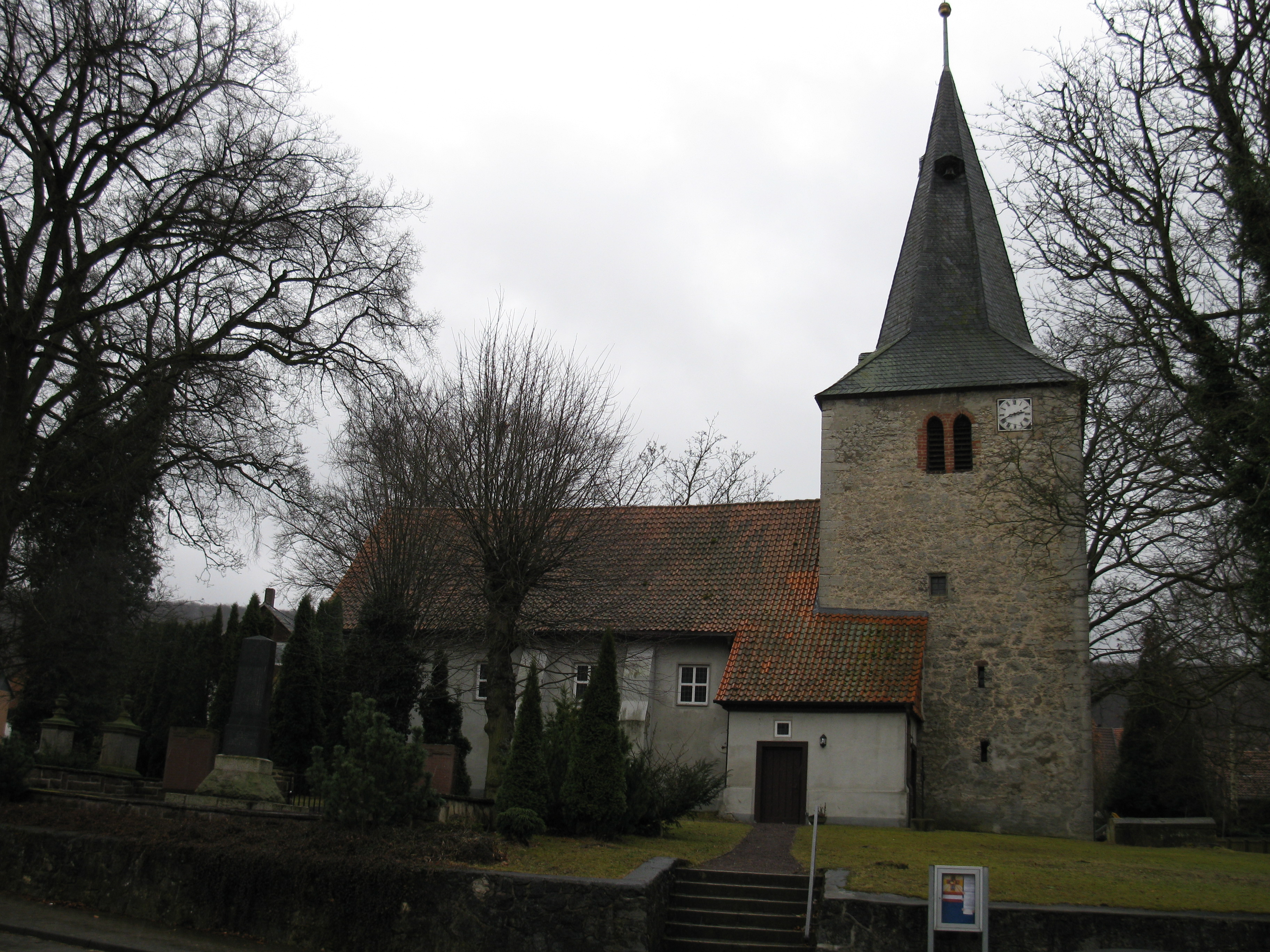 Church in Eberholzen, Germany.